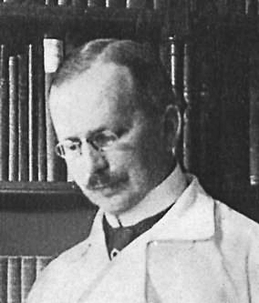 Walter Stoeckel (1871-1961), German gynaecologist